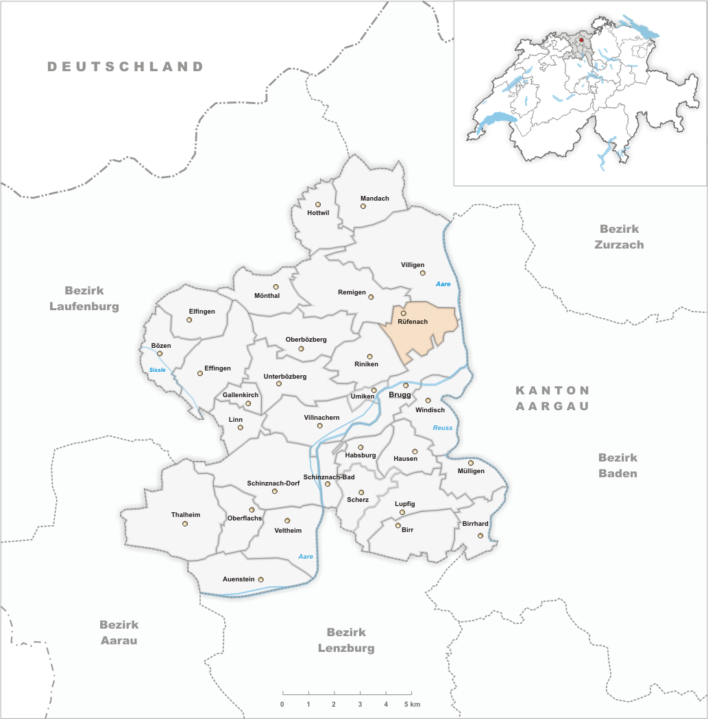 Municipality Rüfenach